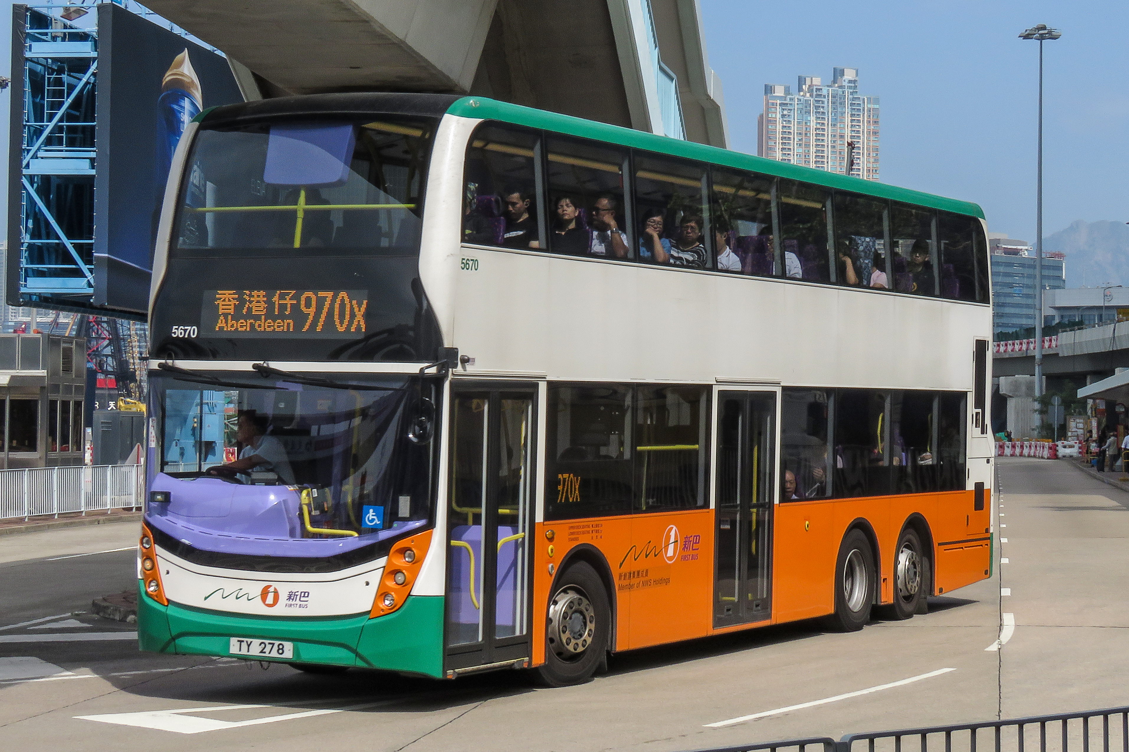 Express MMC to Aberdeen.